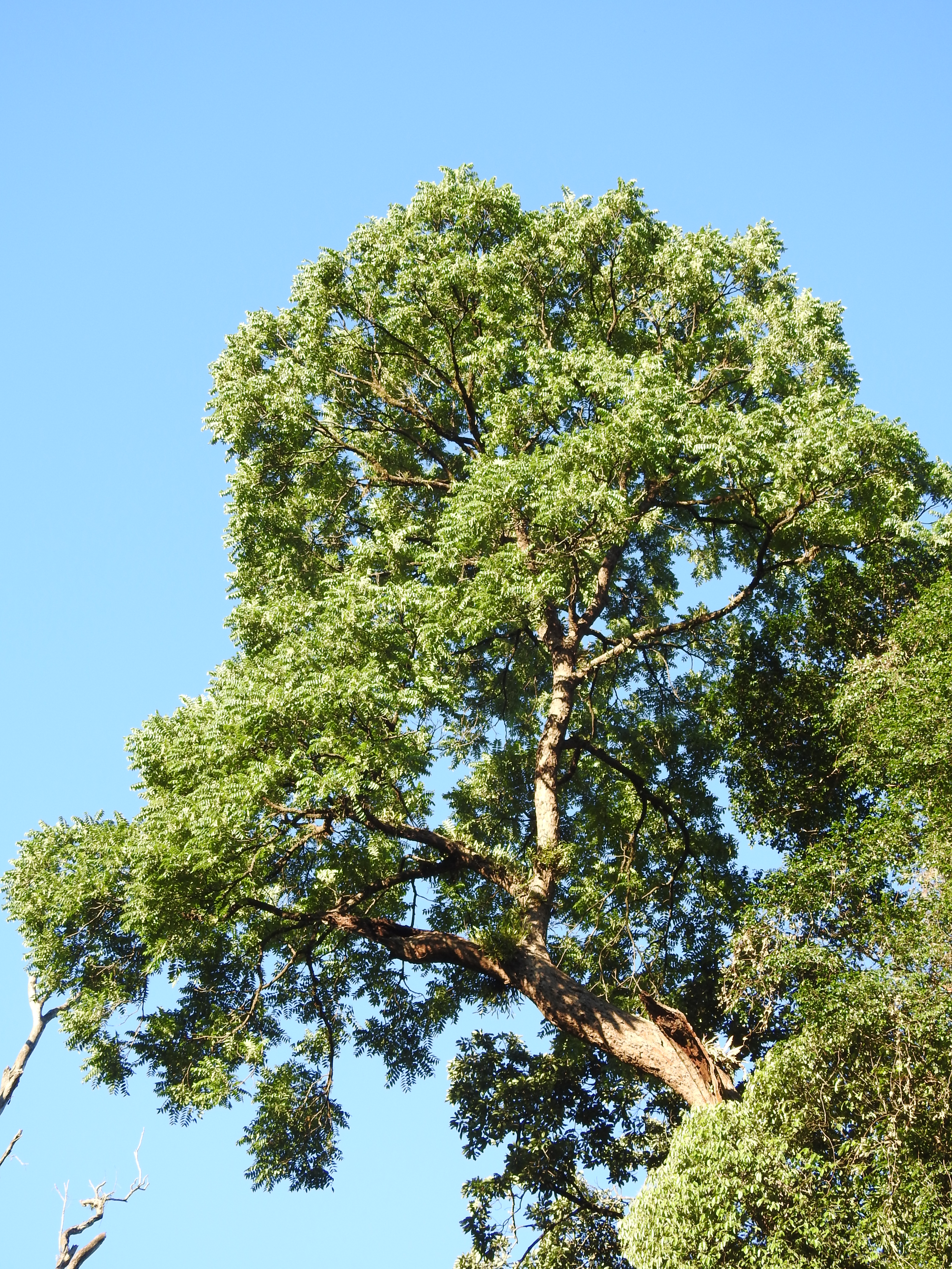 Canopy of Red Cedar tree